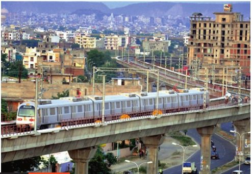 The photograph was taken by me on September 12,2013 when the first trial run of Jaipur metro was in progress on an elevated strech near Mansarovar in Jaipur